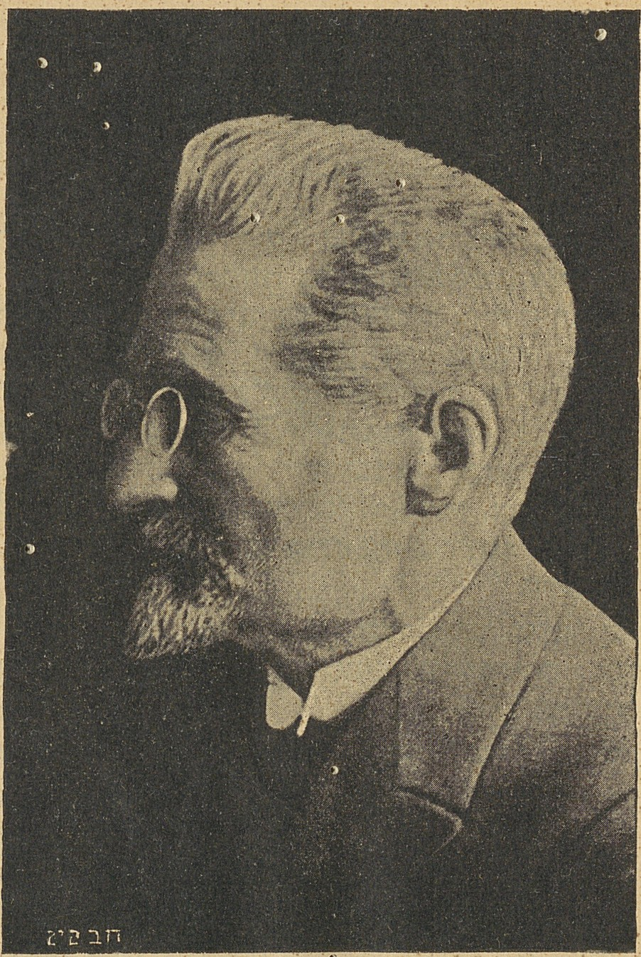 Eliezer Ben-Yehuda profile